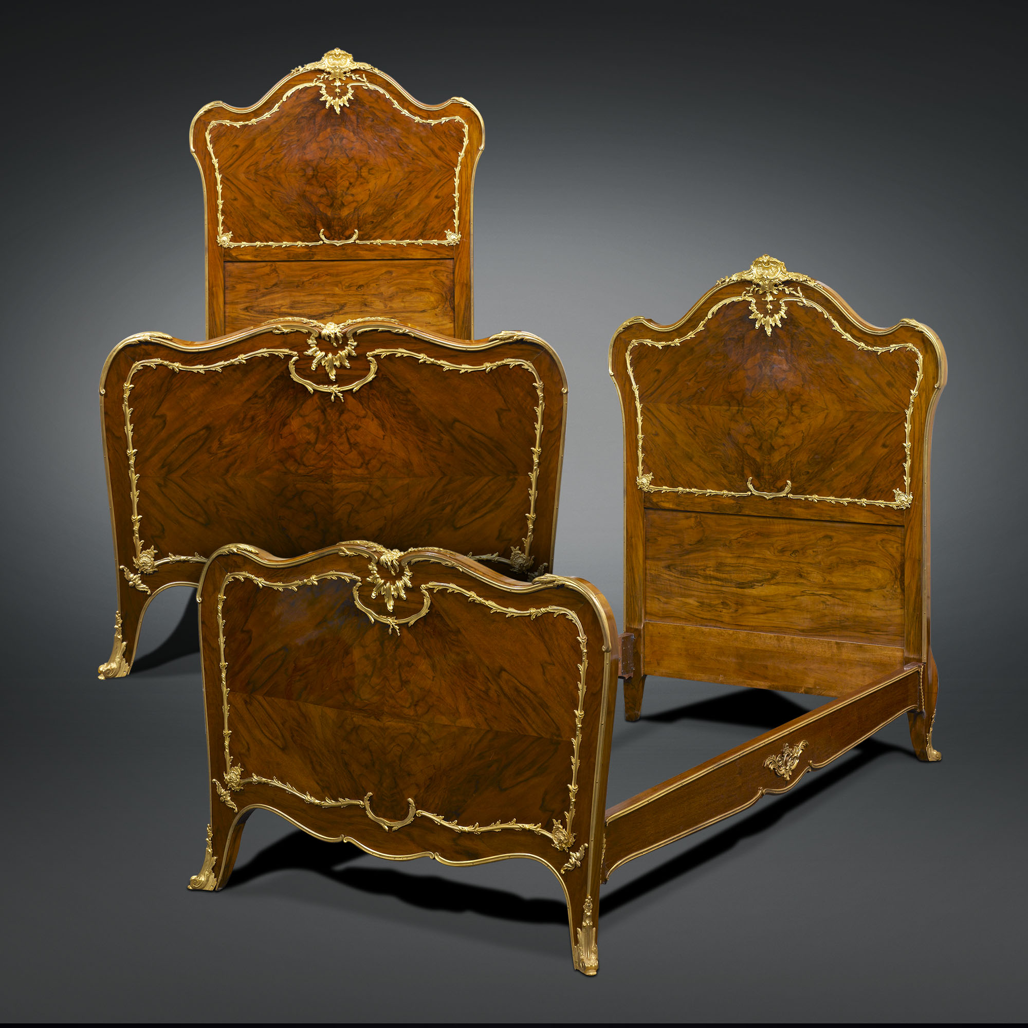 Rococo Style Pair of Twin Beds by François Linke